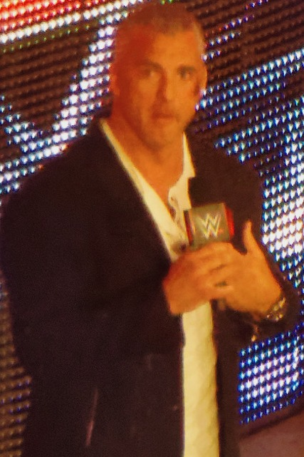 Shane McMahon the night after WrestleMania 32 on Raw in April